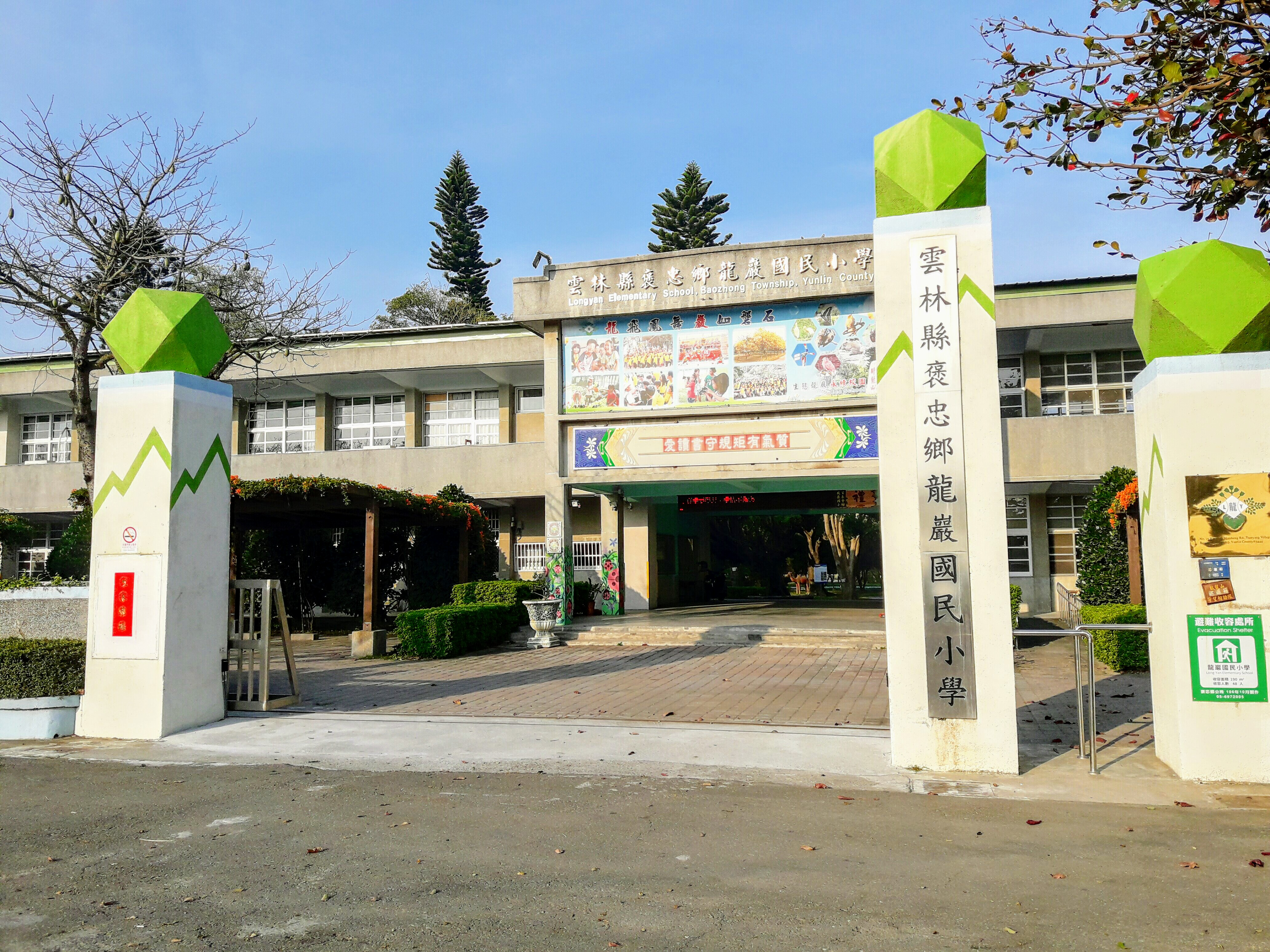 Yunlin County Lung-Yen (also spelt as Longyan) Elementary School in Baozhong Township, Yunlin, Taiwan.